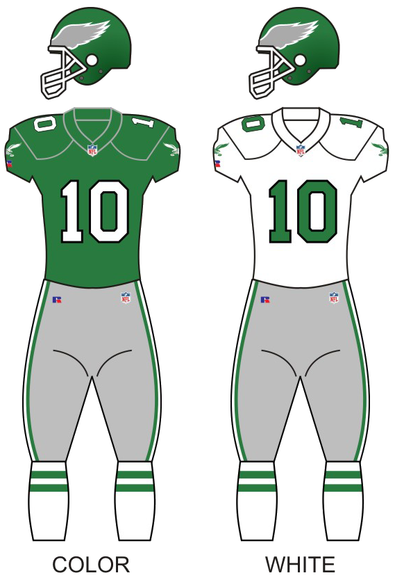 Uniforms worn by the Philadelphia Eagles, by Russell Athletic.